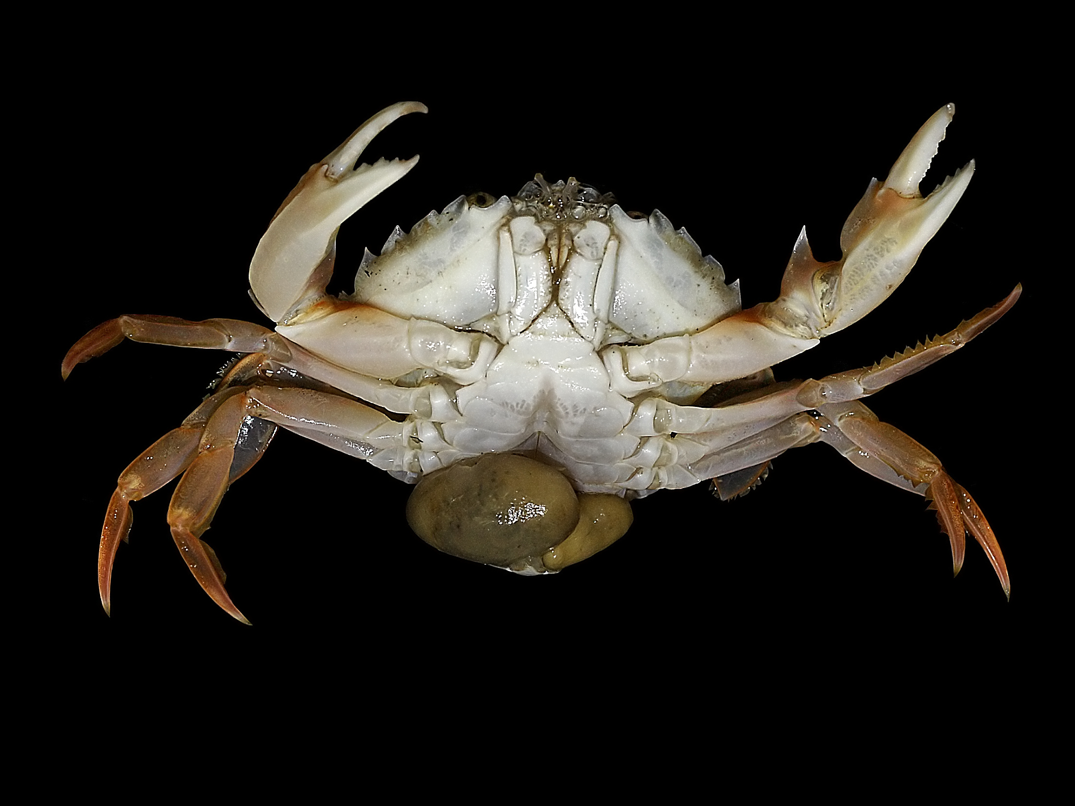 Double infection of a parasitical barnacle on a male swimming crab, from the Belgian coastal waters (Dredge dumping site Oostende).